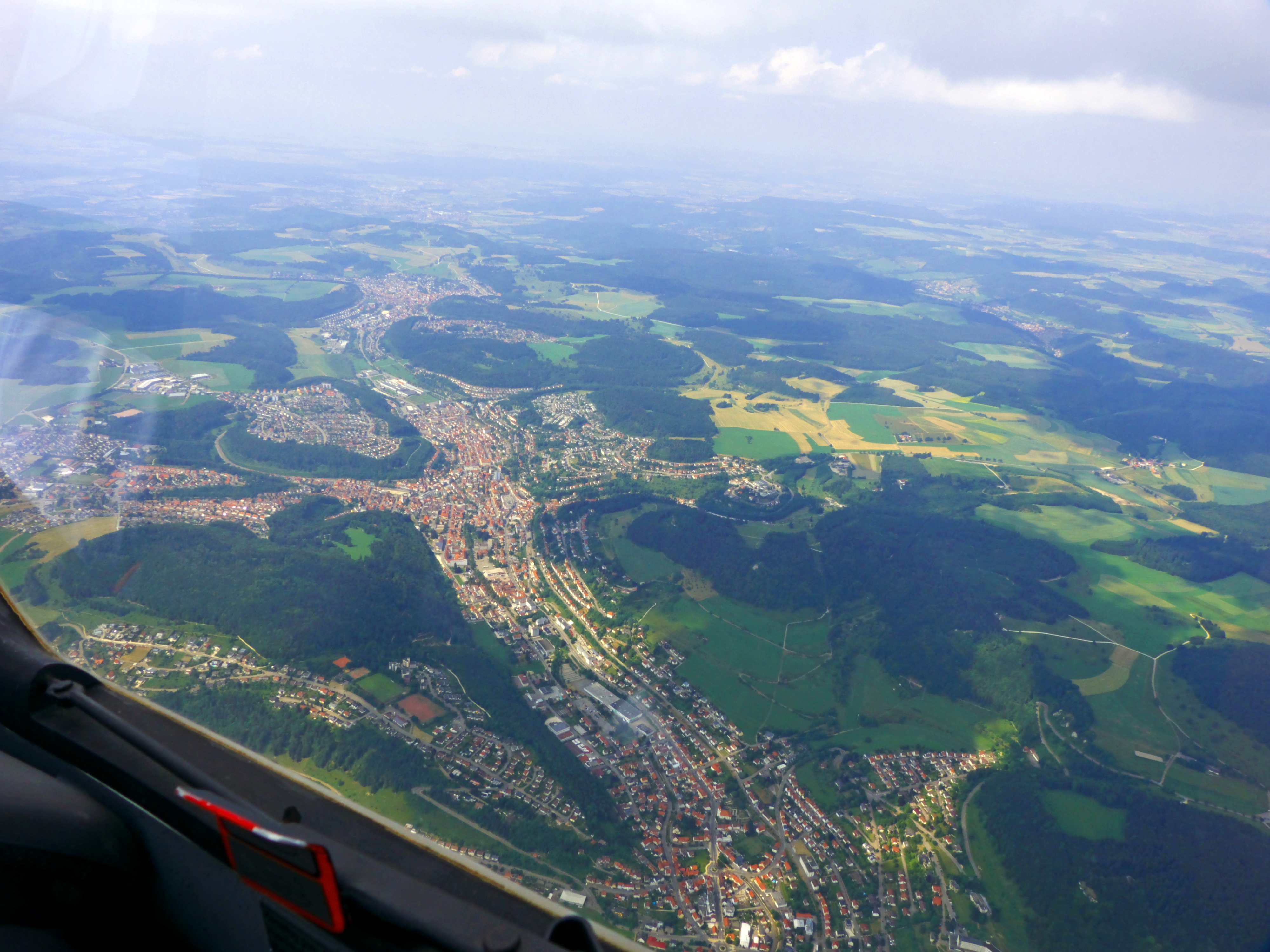 Tailfingen